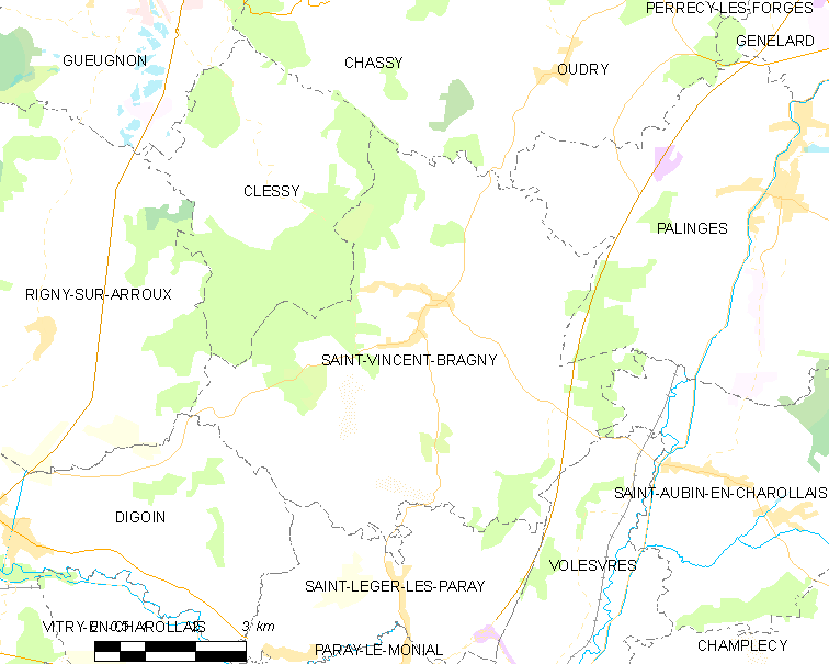 Map of French municipality